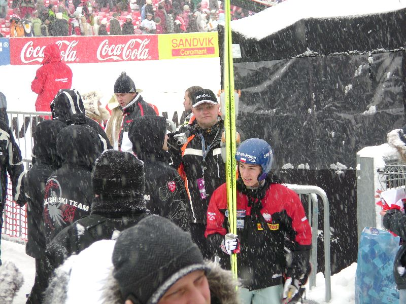 ski jumper Kamil Stoch from Poland during the World Cup in Zakopane on 27-1-2008